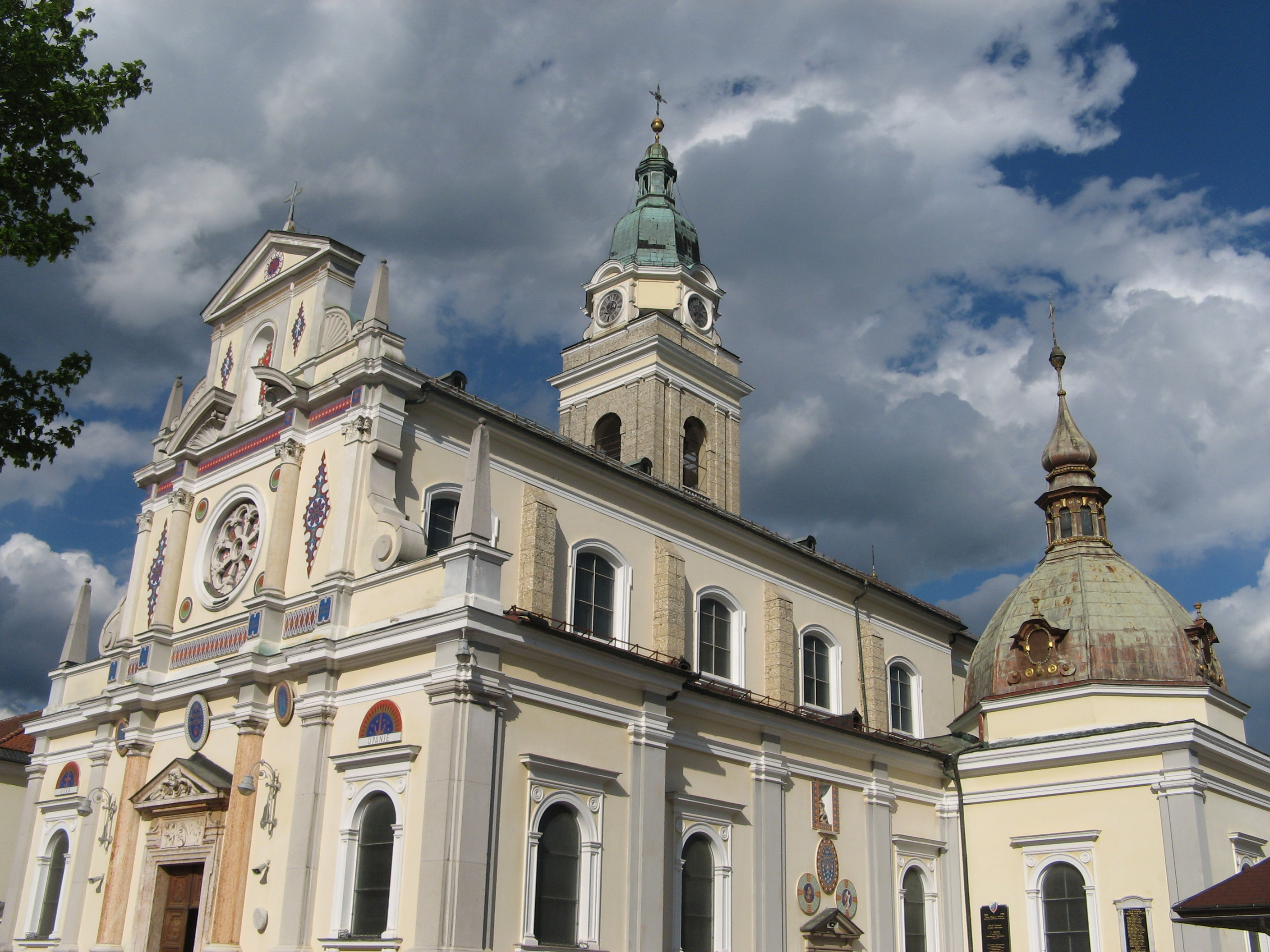 The Pilgrimage Church at Brezje